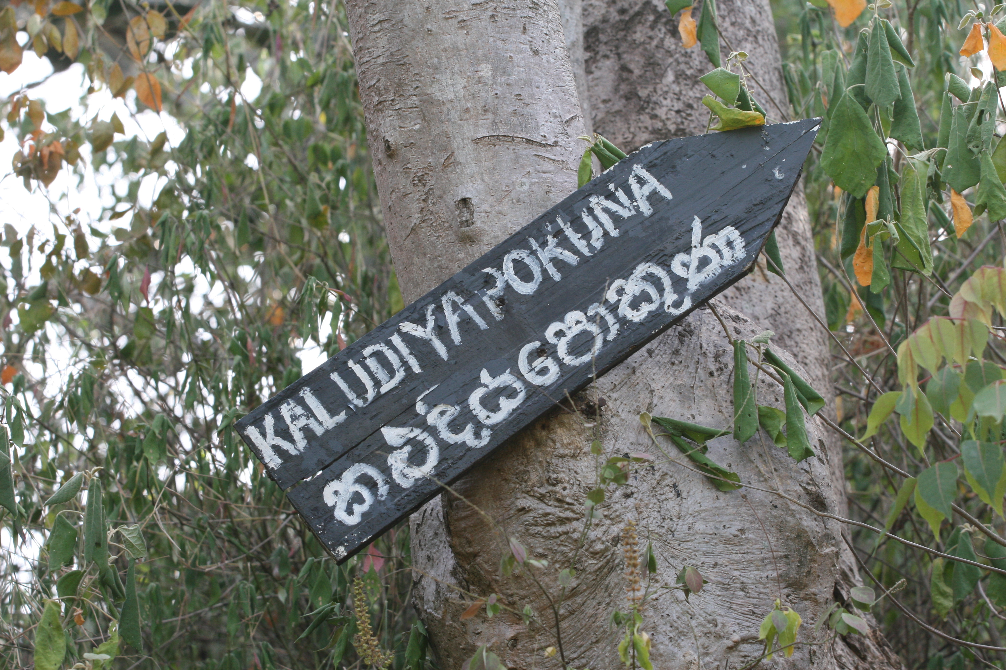 Kaludiya pokuna board